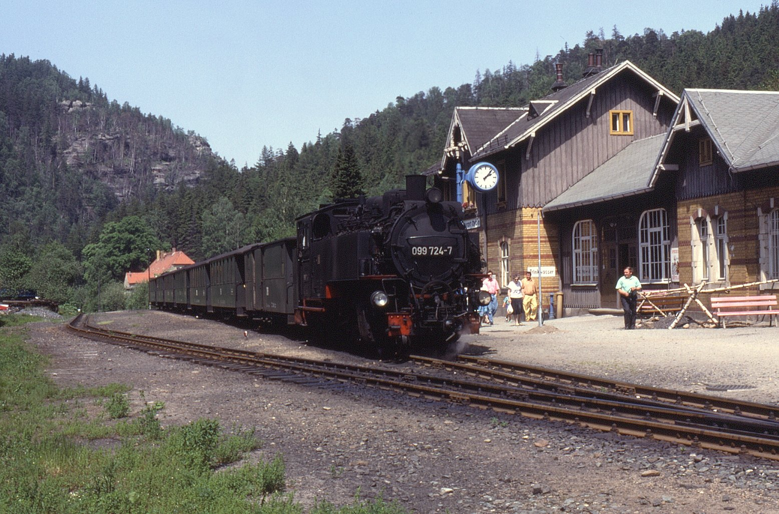 One of several 750mm narrow gauge systems operated with steam survived past unification into DB days. One such system was centred on Zittau "Zittauer Schmalspurbahn" in the far south eastern corner. The line served two destinations Kuroyt Oybin and Kurort Jonsdorf splitting at Bertsdorf. As with other systems, locos were oil fired locos with the wheel arrangement of 2-10-2T and axel arrangement 1'E1' h2t. Seen at Kuroyt Oybin on 24 May 1992 is 099.724 having just arrived on train 14084, 13:20 Zittau to Kurort Oybin. Nowadays as with all the former DR narrow gauge systems, this operation is in private ownership.